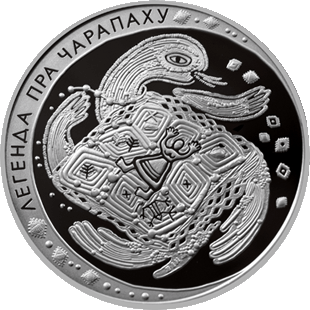 Belarusan copper-nickel commemorative coin «Легенда пра чарапаху». Denomination 1 ruble.